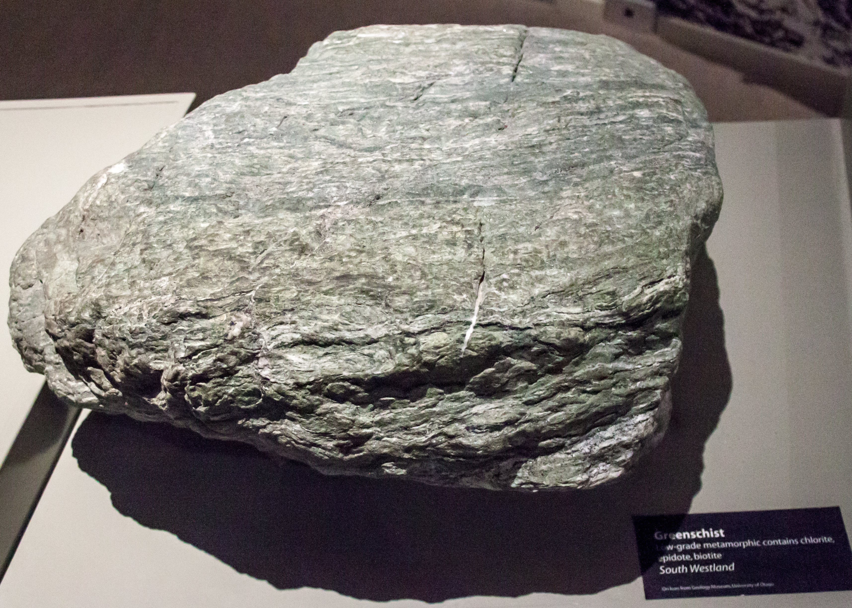 Greenschist. Low-grade metamorphic, contains chlorite, epidote, biotite